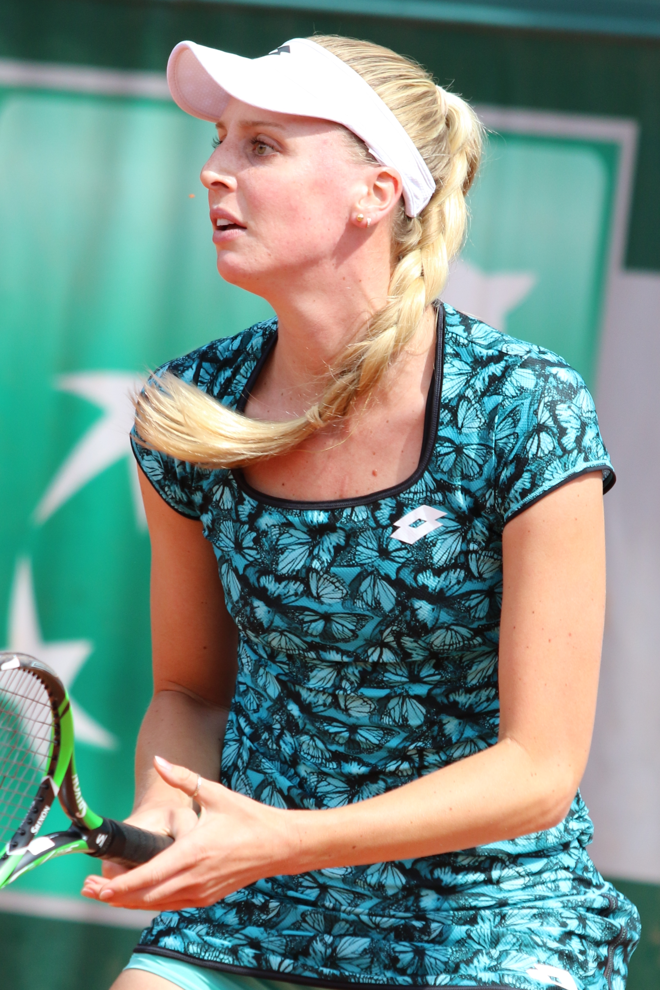 Broady RG18 (3)